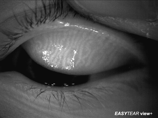 esame con ir delle ghiandole di Meibomio congiuntiva tarsale superiore